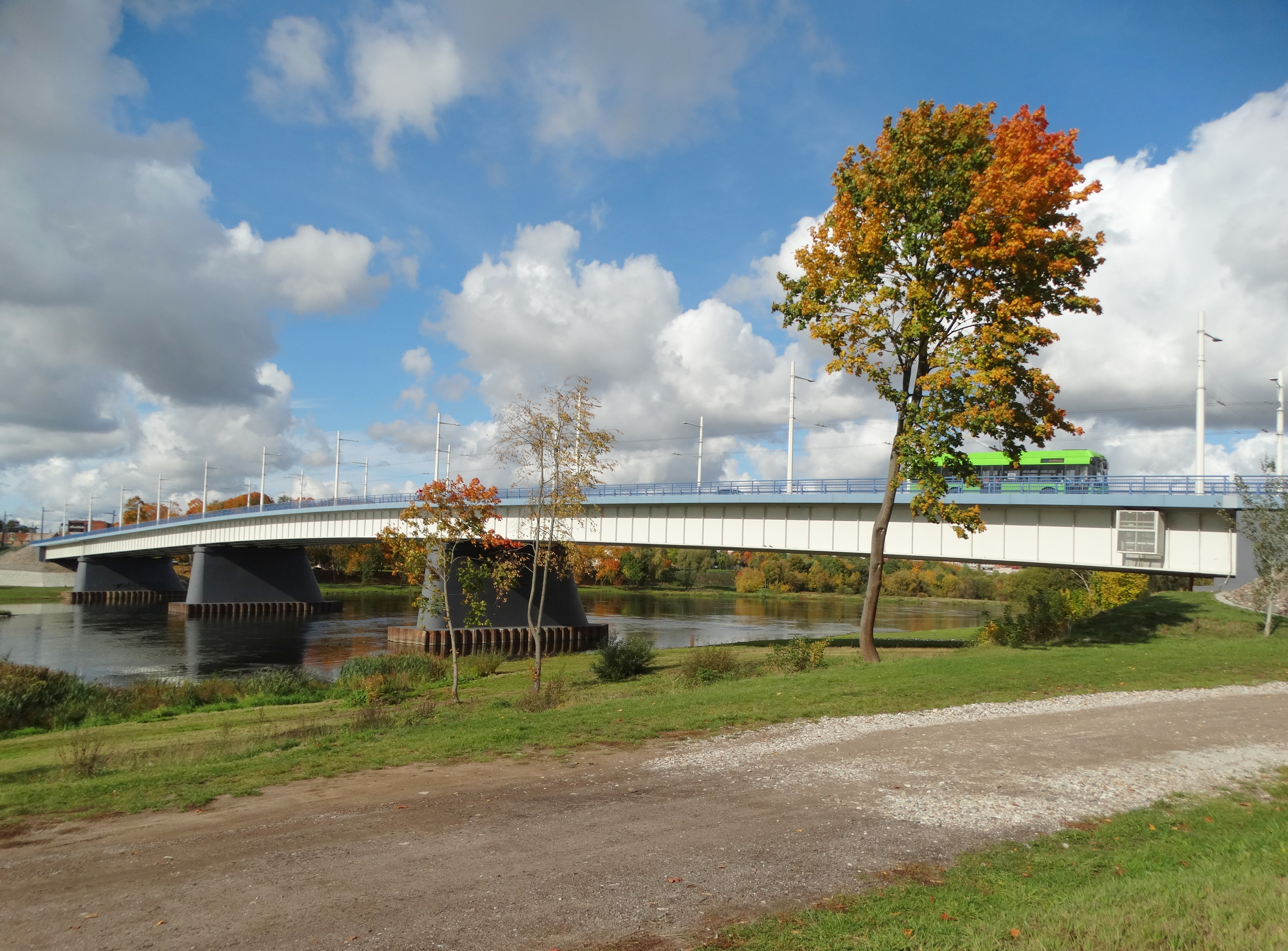 Panemunė Bridge, Kaunas, Lithuania